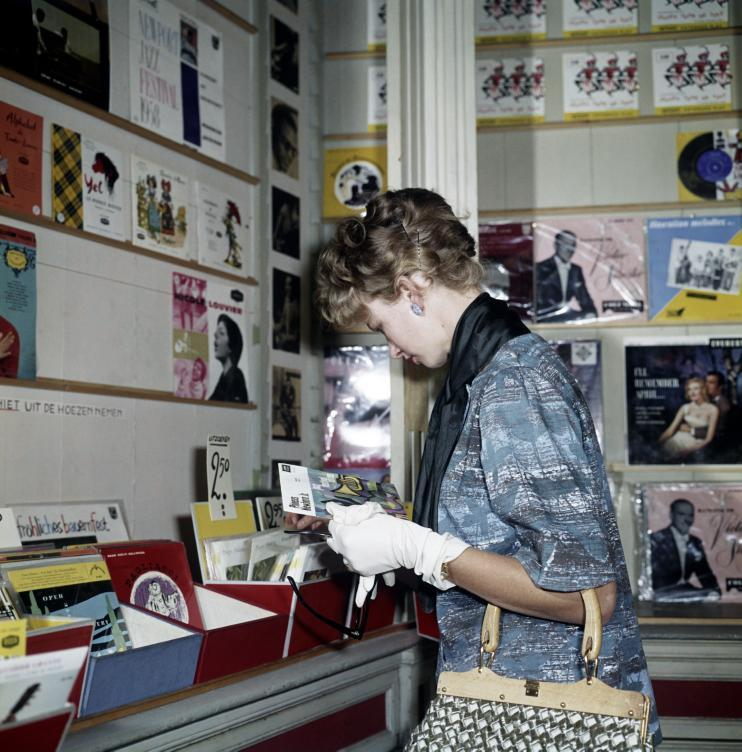 Woman in record shop Smits. The Netherlands, The Hague, 1962. Hebt u meer informatie over deze foto, laat het ons weten. Laat een reactie achter (als u ingelogd bent bij Flickr) of stuur een mailtje naar: Please help us gain more knowledge on the content of our collection by simply adding a comment with information. If you do not wish to log in, you can write an e-mail to: Meer foto’s van Spaarnestad Photo zijn te vinden op onze beeldbank